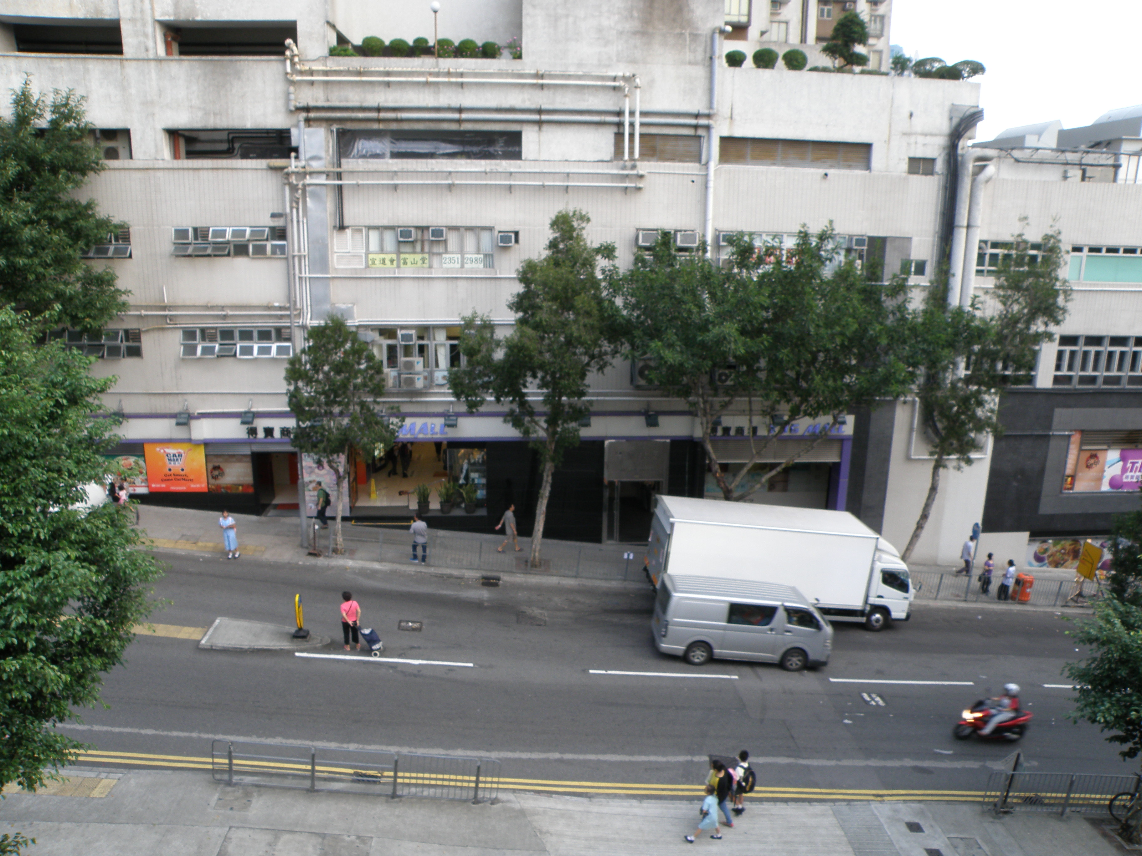 Tak Bo Mall in Kowloon Bay, Hong Kong.